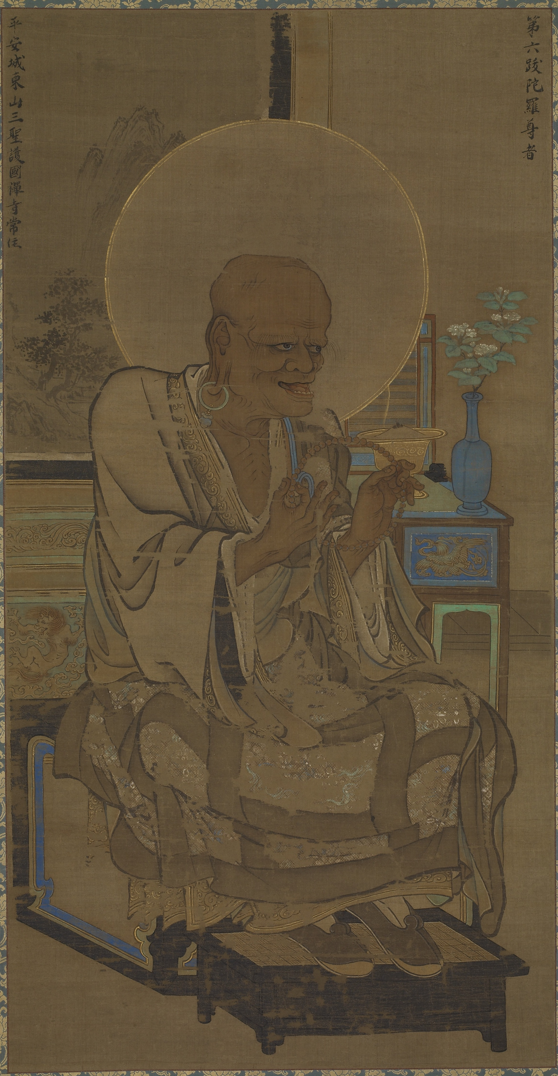 A Japanese hanging scroll painting of a Buddhist arhat; ink, color and gold on silk; by the painter Ryozen (mid 13th century). From the Freer and Sackler Galleries of Washington D.C. Author: User:PericlesofAthens Date: August 3, 2007